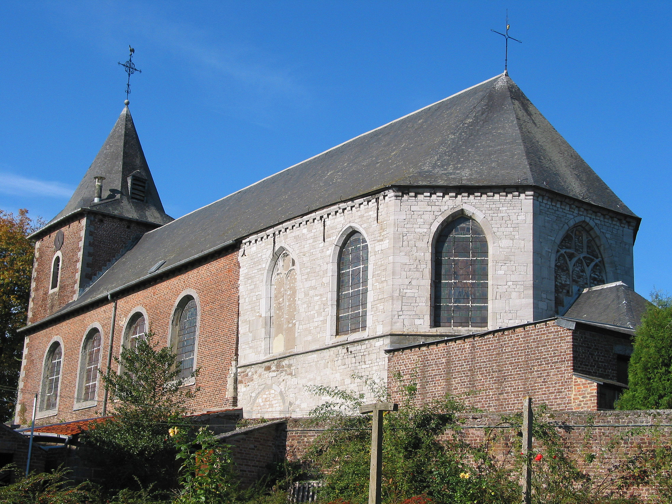 Burdinne (Belgium), church of the nativity of Our-Lady. Walon: Beûrdéne (Bèljike), l'èglîje dol Vinue au monde di Notrè-Dame.